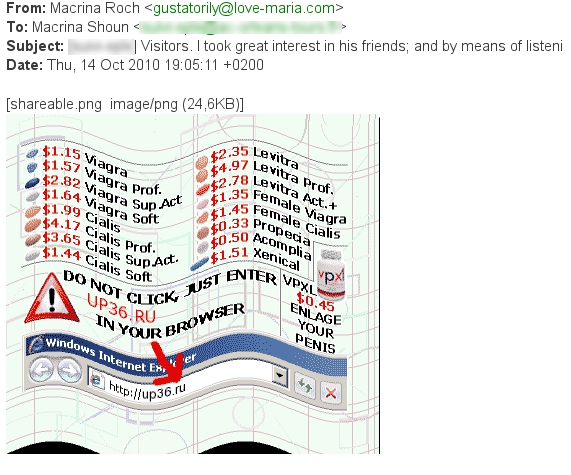 Image spam.